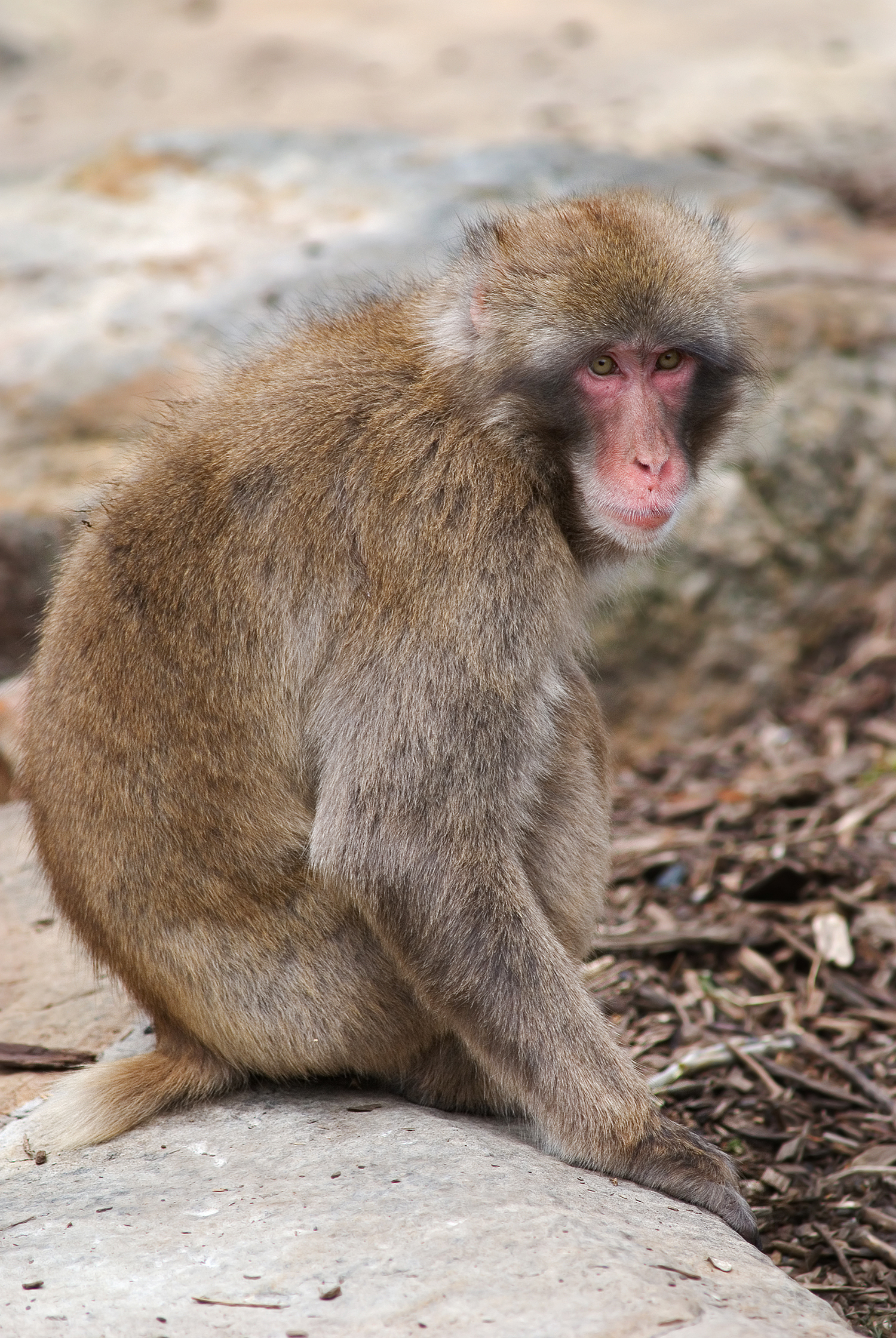 Japanese Macaque in captivity, Launceston, Tasmania